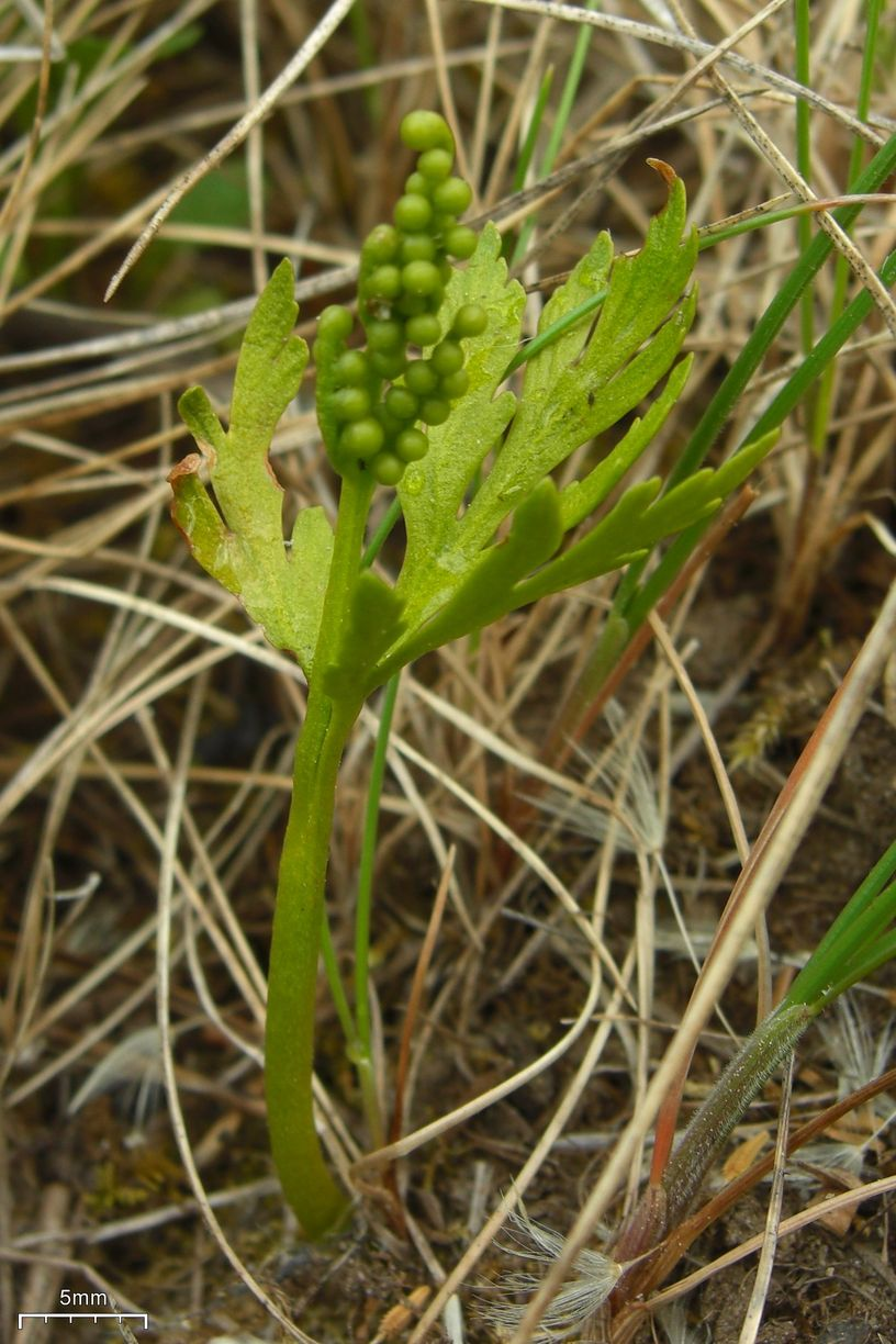 Botrychium lanceolatum (Gmel.) Angstr. 20090616.1 Wells Gray Park, BC